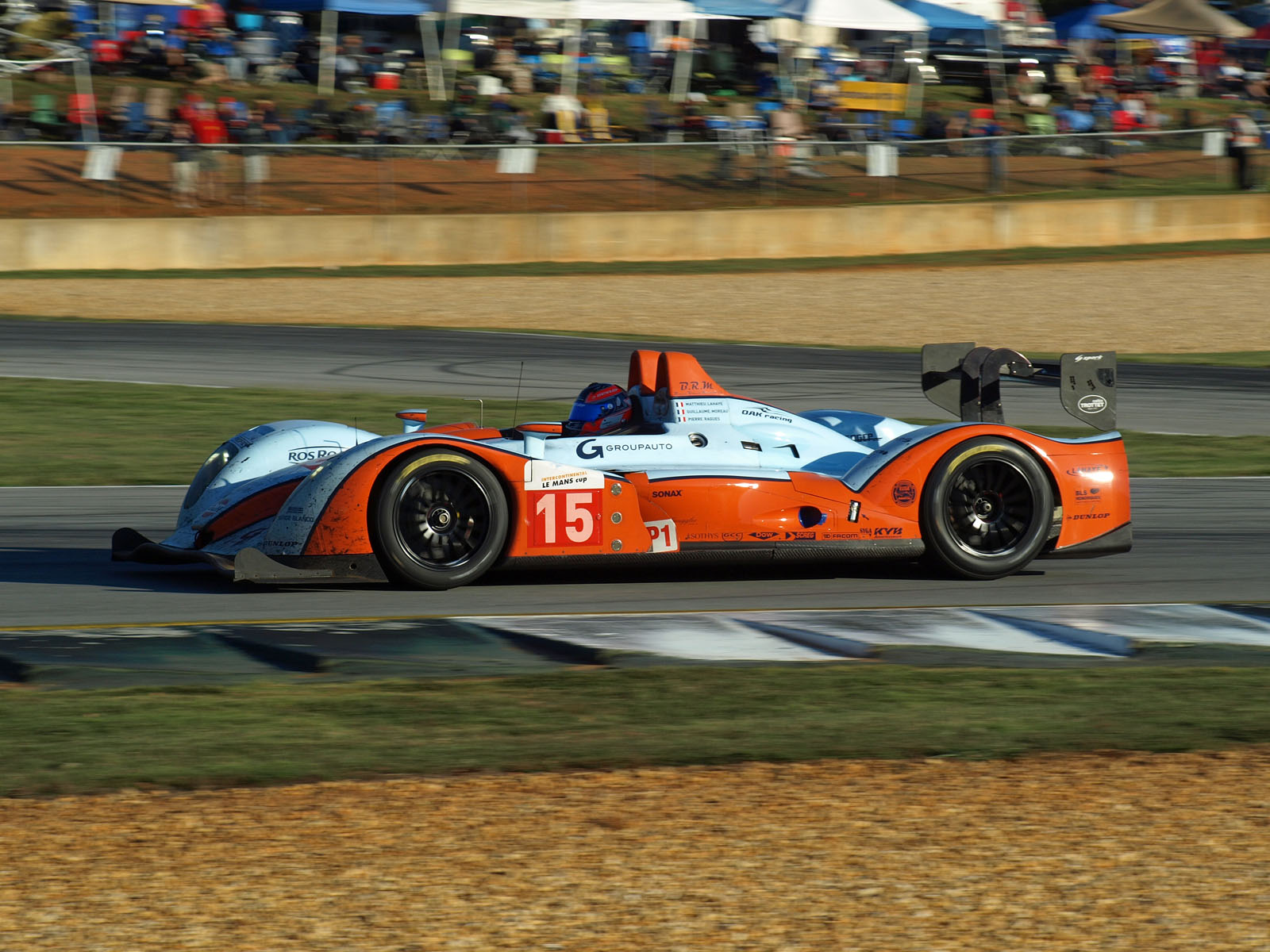 Guillaume Moreau driving the OAK Racing Pescarolo 01 in the 2011 Petit Le Mans at Road Atlanta.